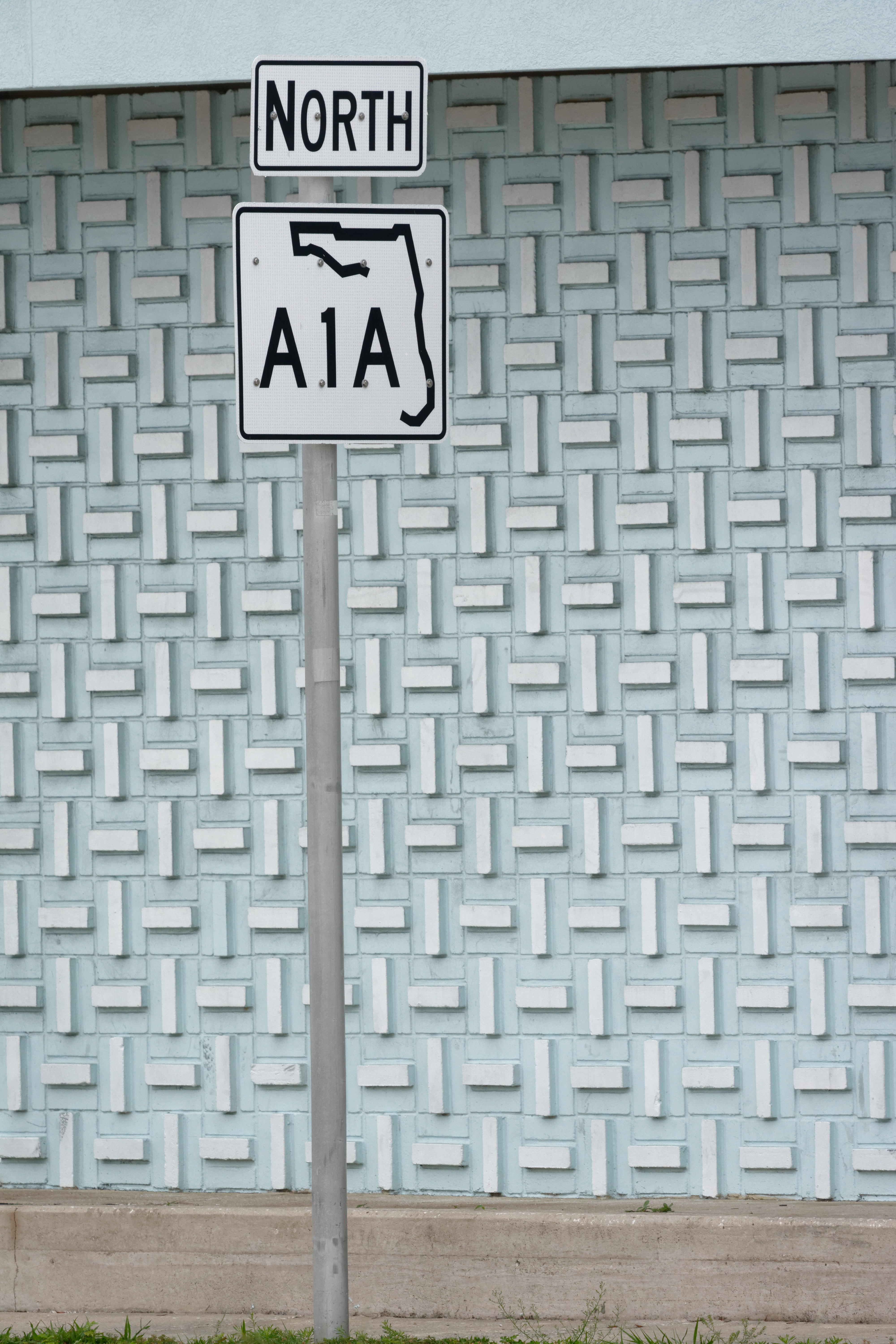 Florida A1A road sign in St. Augustine, Florida, U.S.